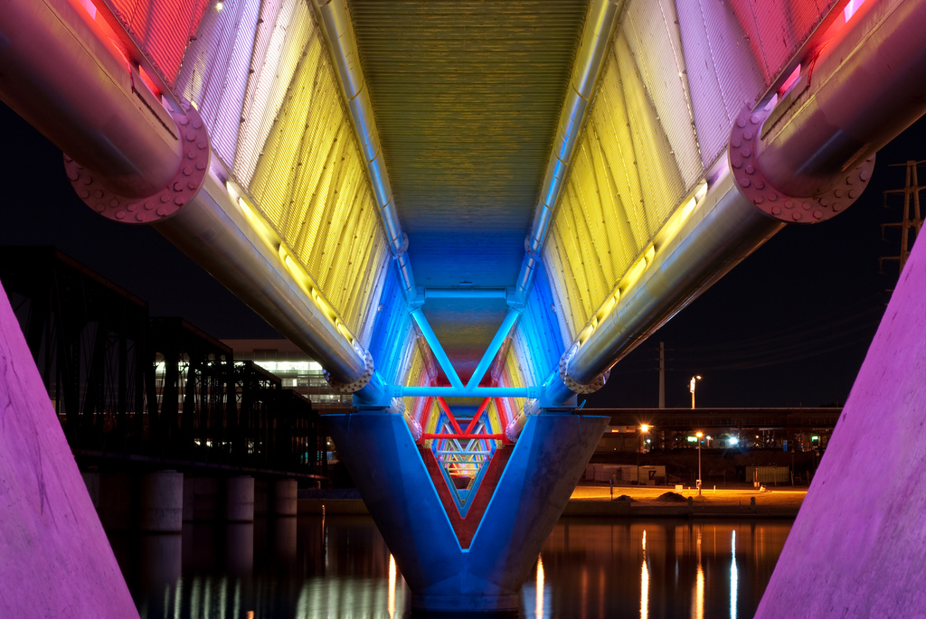 Illuminated bridge of the Light Rail running over Tempe Town Lake.